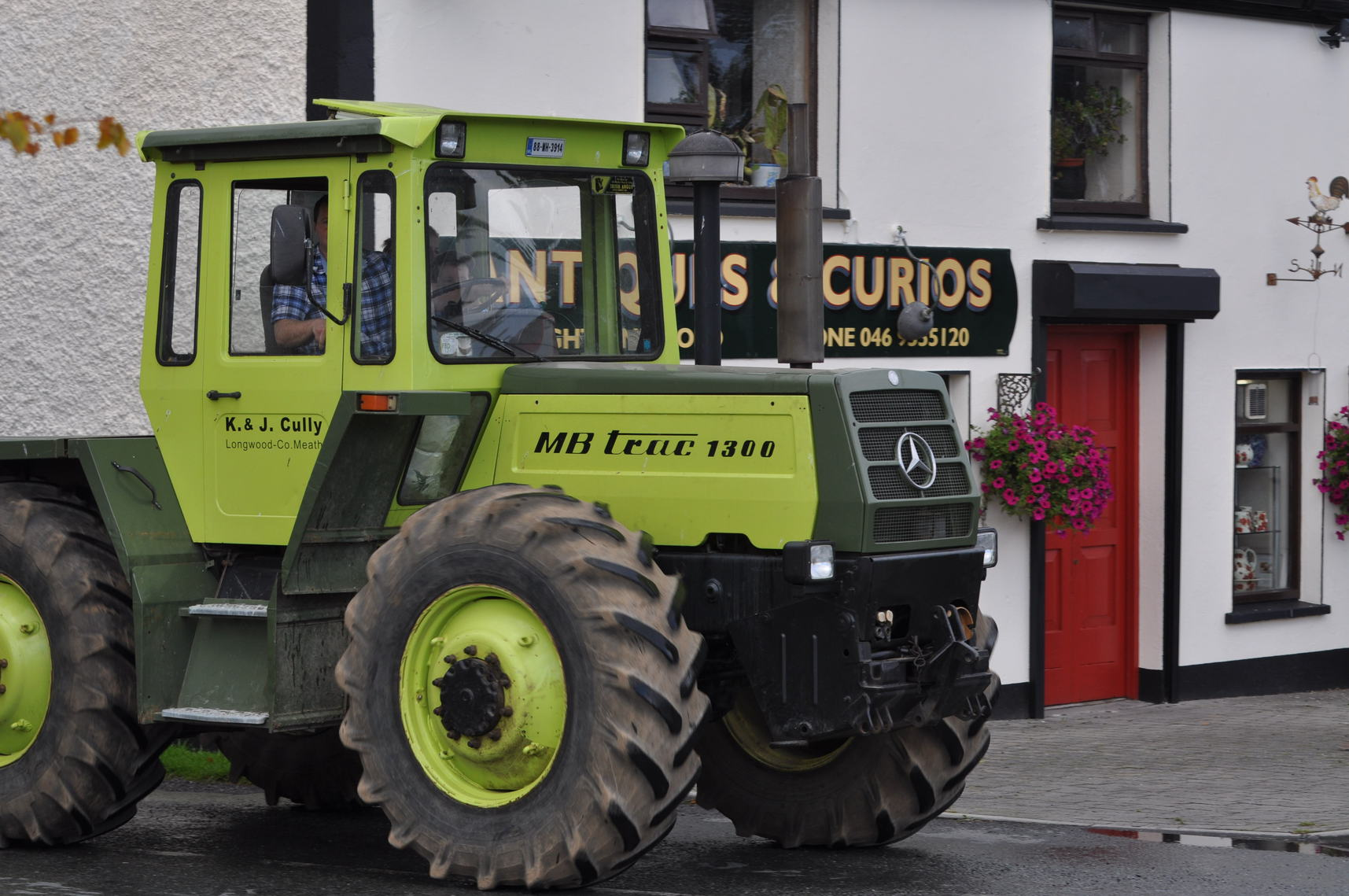 MB trac 1300 tractor at the 1st Annual Edward Cosgrave Tractor Run in Aid of REHAB - Sunday 21st August 2011. See this on Facebook at [1]. This was taken at the event held in Longwood, Co. Meath. This picture show the return to the village from Saint Oliver's Road. – If you are interested in the full resolution of any photograph(s), with no watermark or polaroid effect, I can email it to you FREE OF CHARGE. Email address is petermooney78 AT gmail DOT com. The easiest way to do this is to open the picture in Flickr and copy the link at the top of the browser into your email. If you would like to use any of the photographs on your Facebook, LinkedIn, Twitter, Foursquare, account etc - please link back to the original photogaph on Flickr or attribute the source. All my photographs are available under a Attribution-ShareAlike 2.0 Generic (CC BY-SA 2.0) license. This just means that all you have to do is just link back or state where the photographs came from. This is the only "cost" of the images.